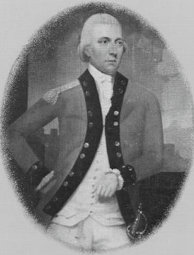 James DeLancey (1747-1804)